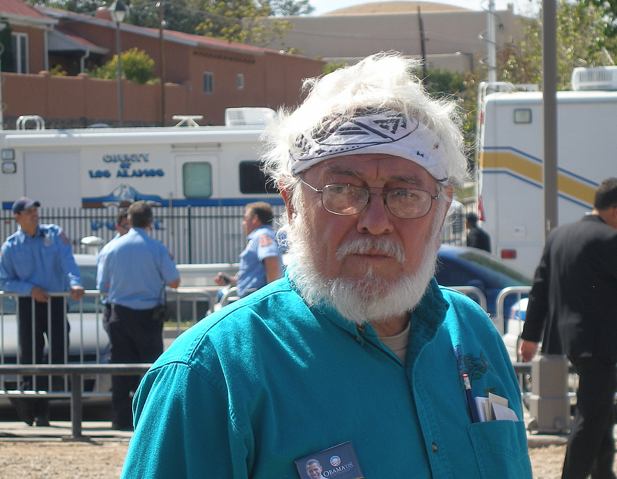 Former Lt. Gov.